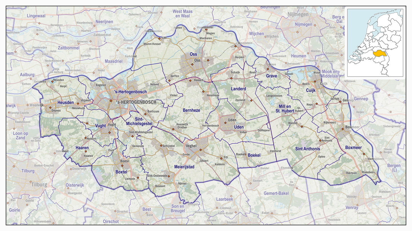 Map of the Dutch Safety Region, with an impression of the terrain and the municipal borders as of 1-1-2017.